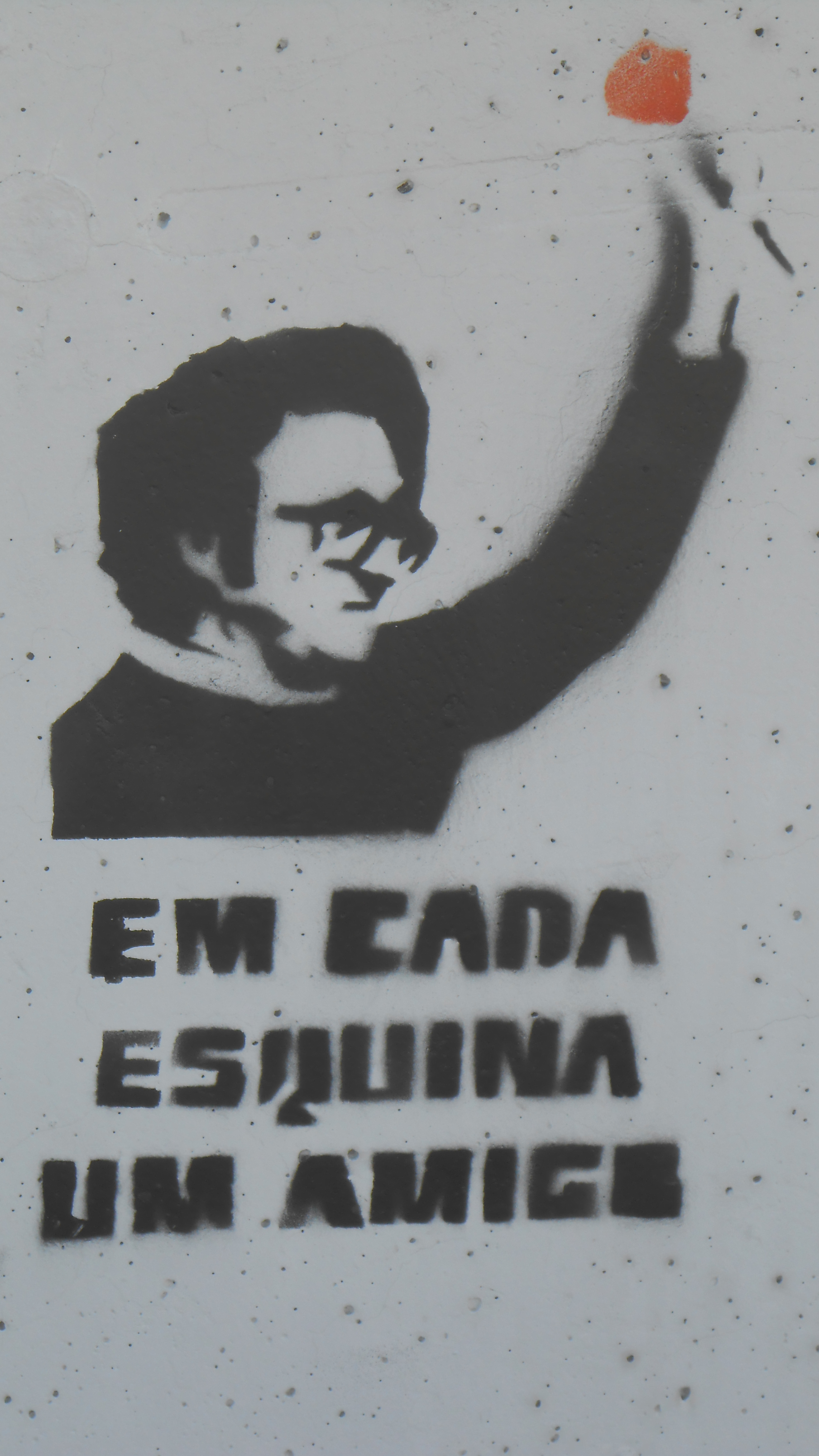 Stencil graffito of portuguese protest singer José Afonso, seen beheind the central train station of Aveiro, august 2013. "Em cada esquina um amigo" (engl.: A friend on every corner), quotation from the song "Grândola vila morena", which played a role in the carnation revolution 1974 in Portugal.